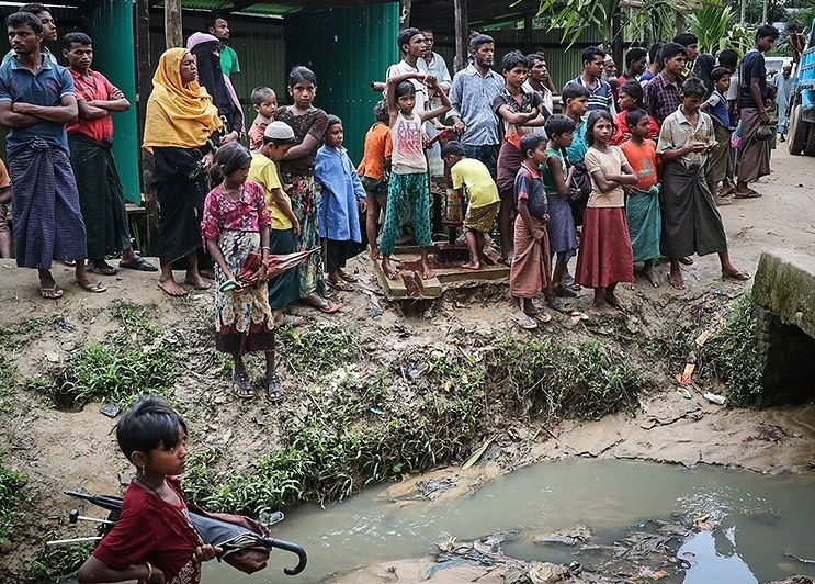 Rohingya displaced Muslims